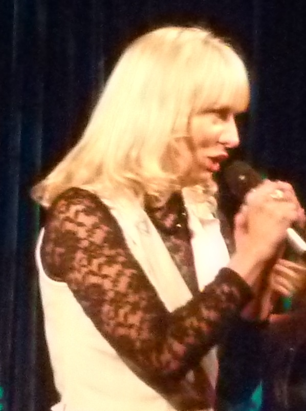 Tora Augestad with Pitsj at Ingensteds September 10, 2016.